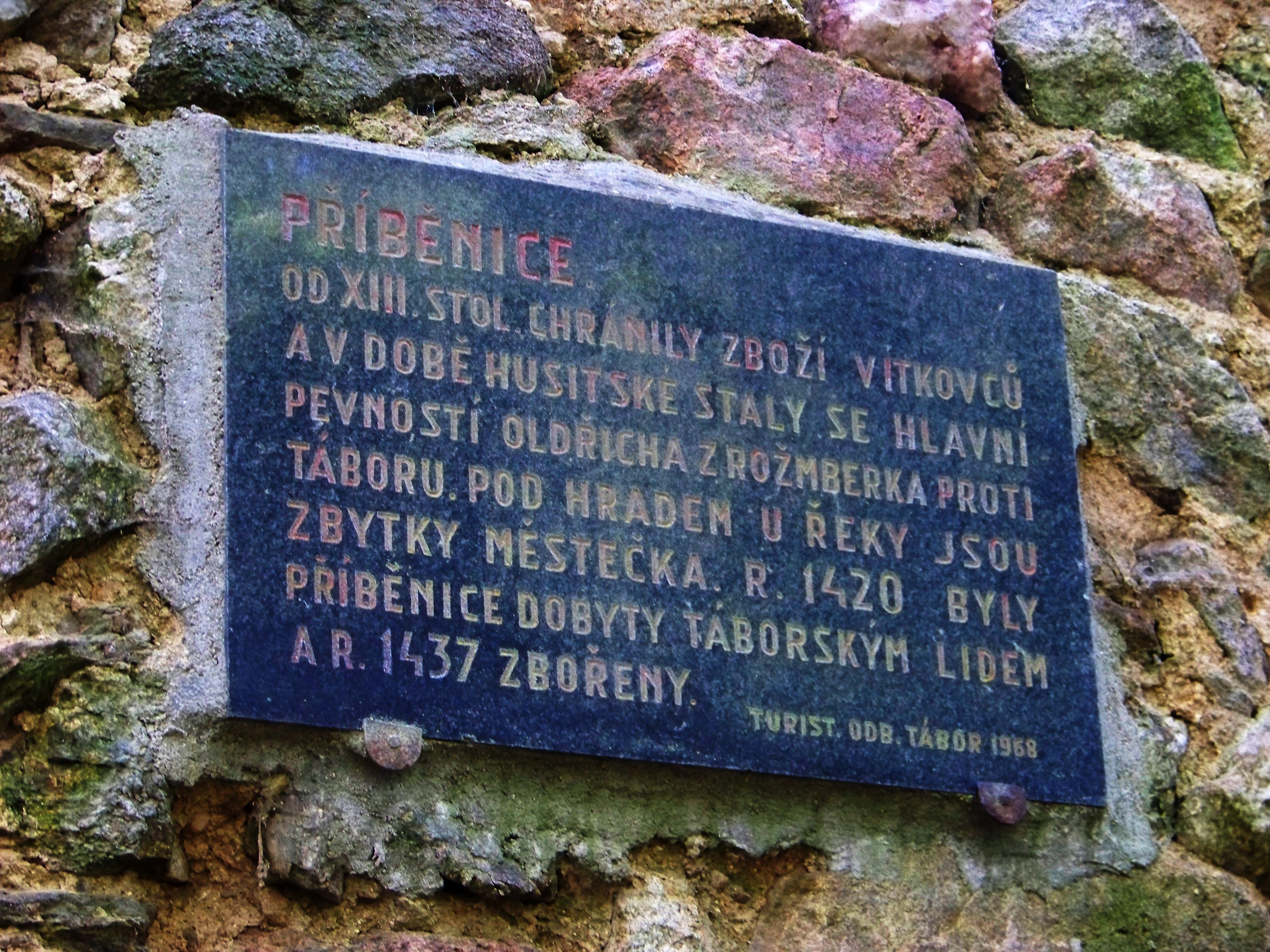 Malšice-Příběnice, Tábor District, South Bohemian Region, the Czech Republic. Příběnice Castle, an informational plaque.